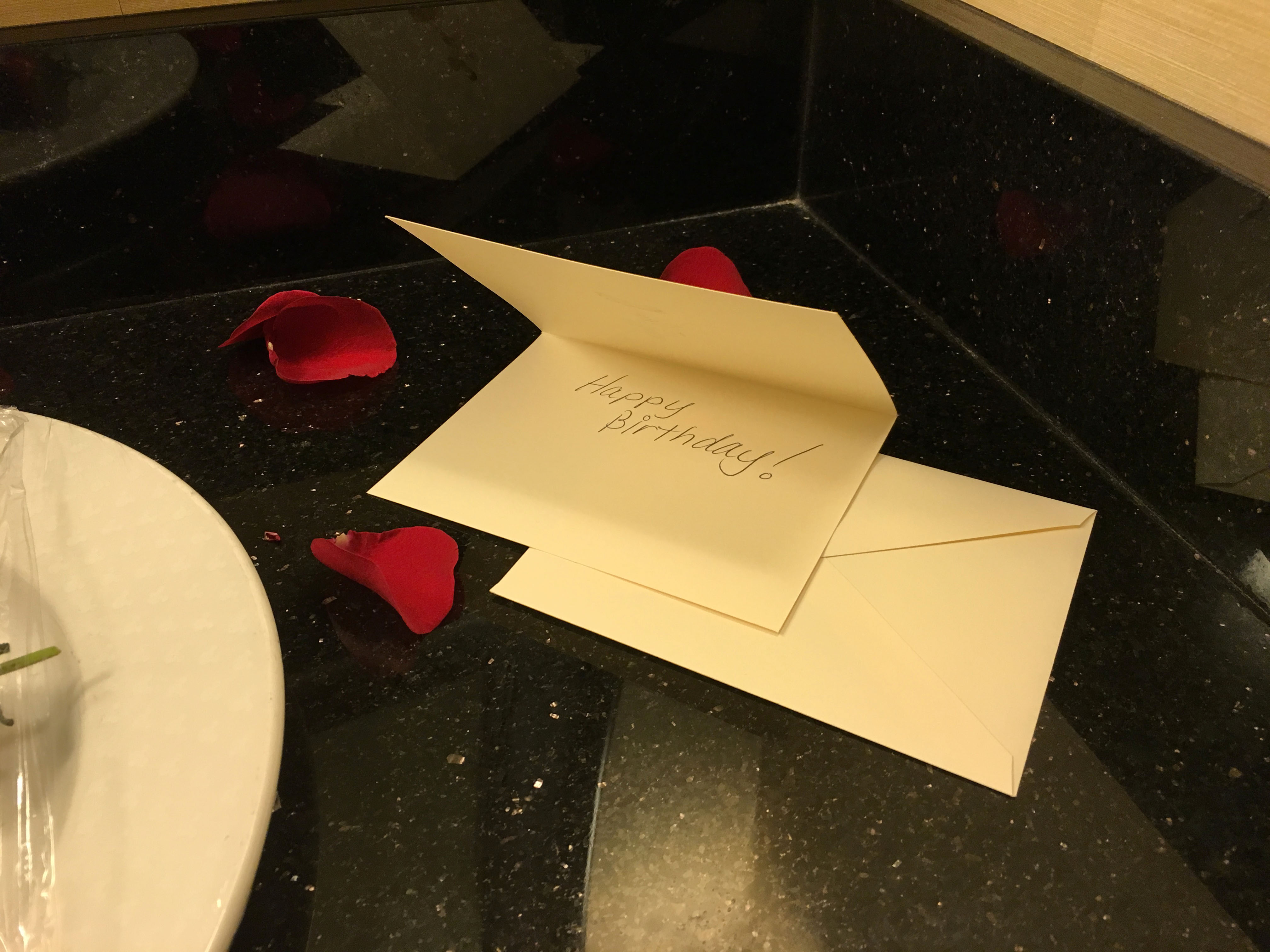 A birthday card for Katie's birthday at the Disneyland Hotel.